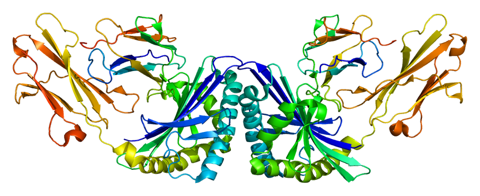 Structure of the CD1A protein. Based on PyMOL rendering of PDB 1onq.